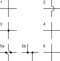 Different ways of drawing wire junctions.